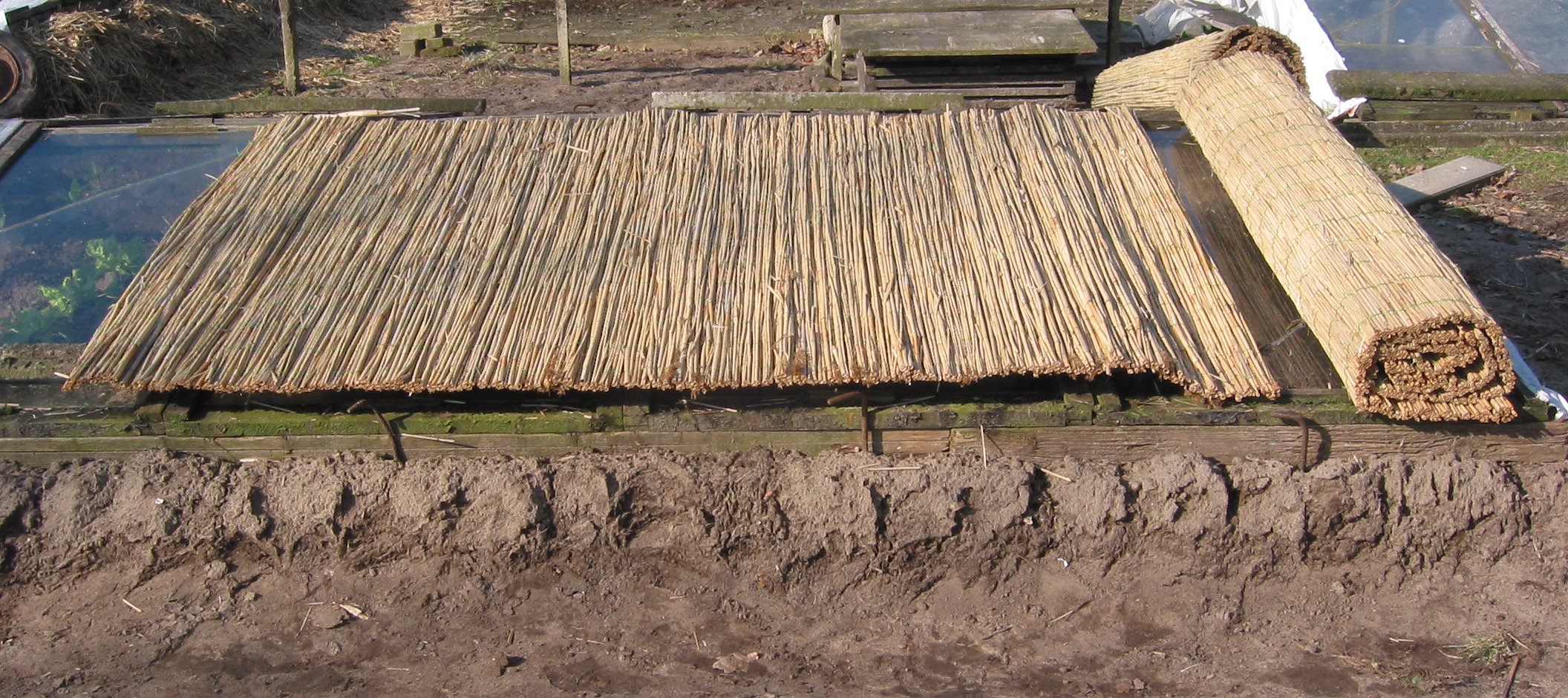 Reed